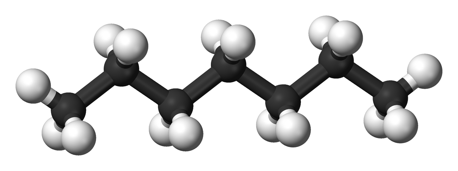 Ball and stick model of the heptane molecule.